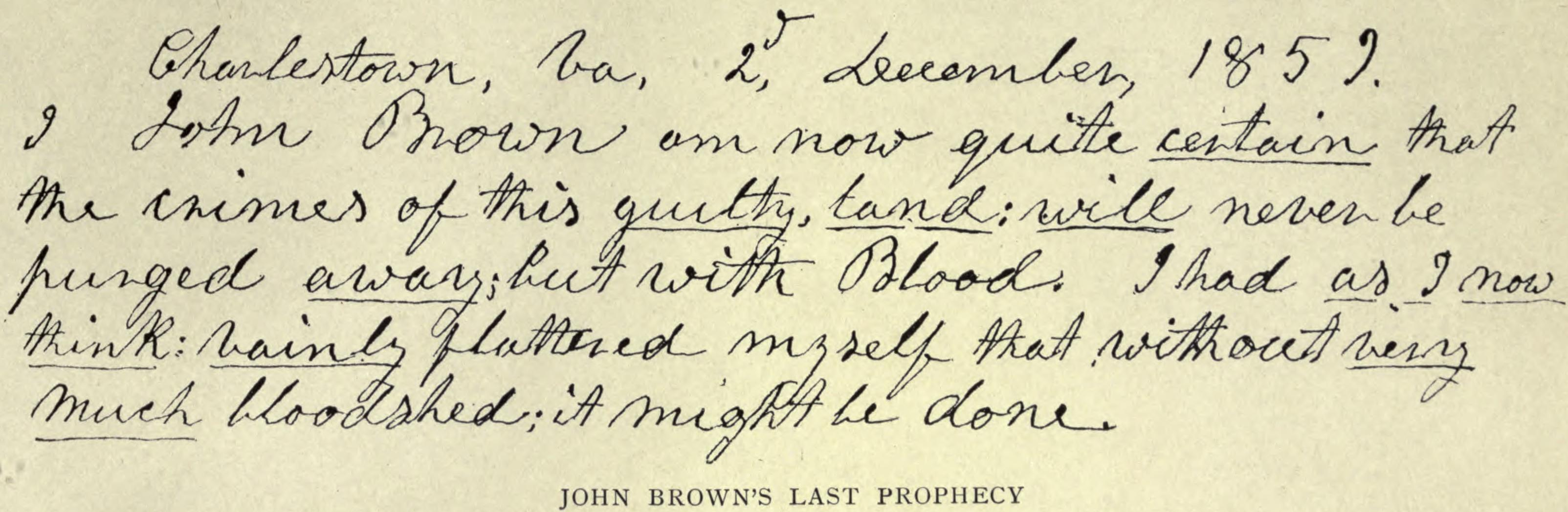 On the day of his execution, December 2, 1859, John Brown wrote his last prophecy and passed it to a jailer. This is an albumen print; the location of the original is unknown.Charlestown, Va, 2d, December, 1859. I John Brown am now quite certain that the crimes of this guilty, land: will never be purged away; but with Blood. I had as I now think: vainly flattered myself that without very much bloodshed; it might be done.